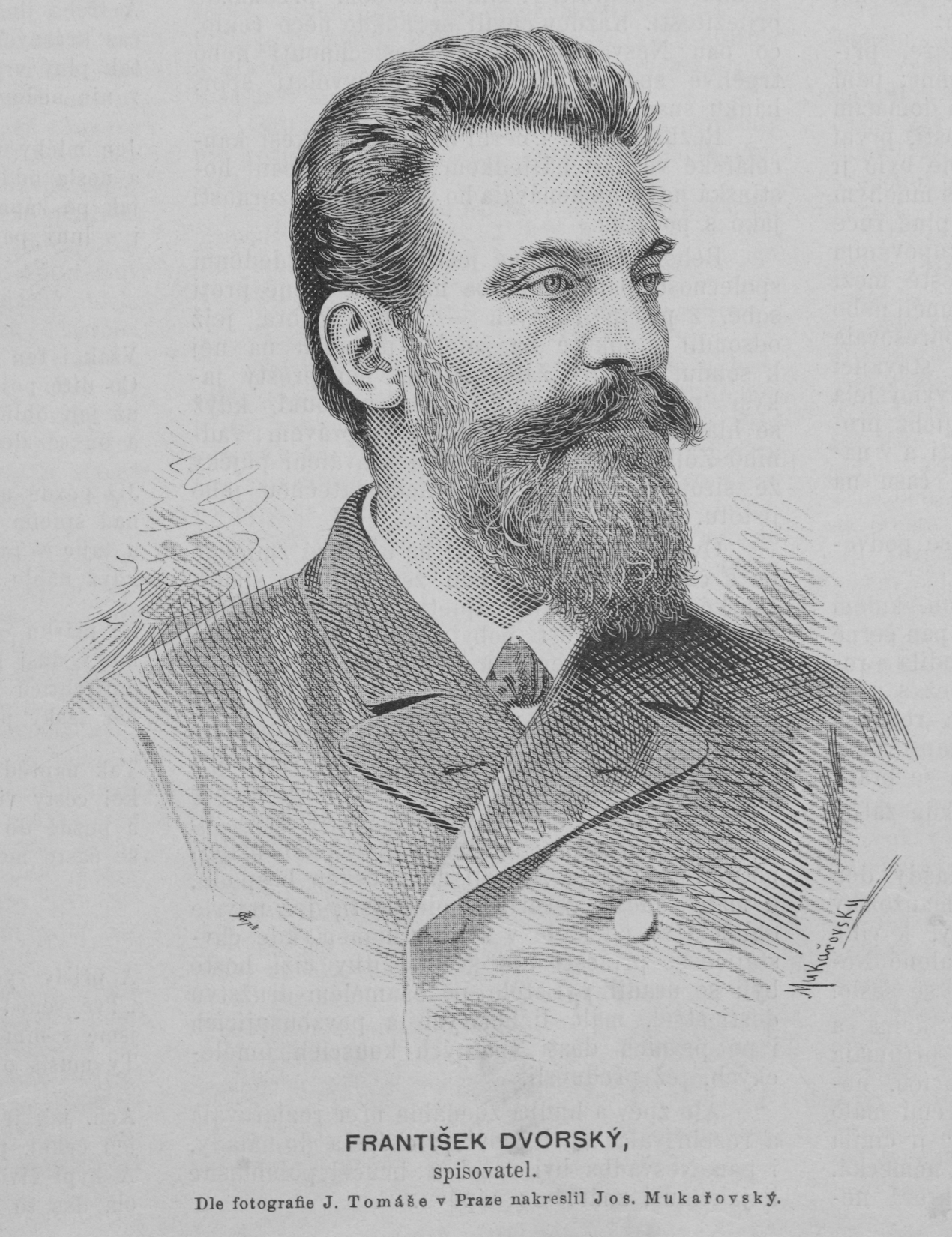 Portrait of František Dvorský (1839 - 1907), Czech historian and writer.